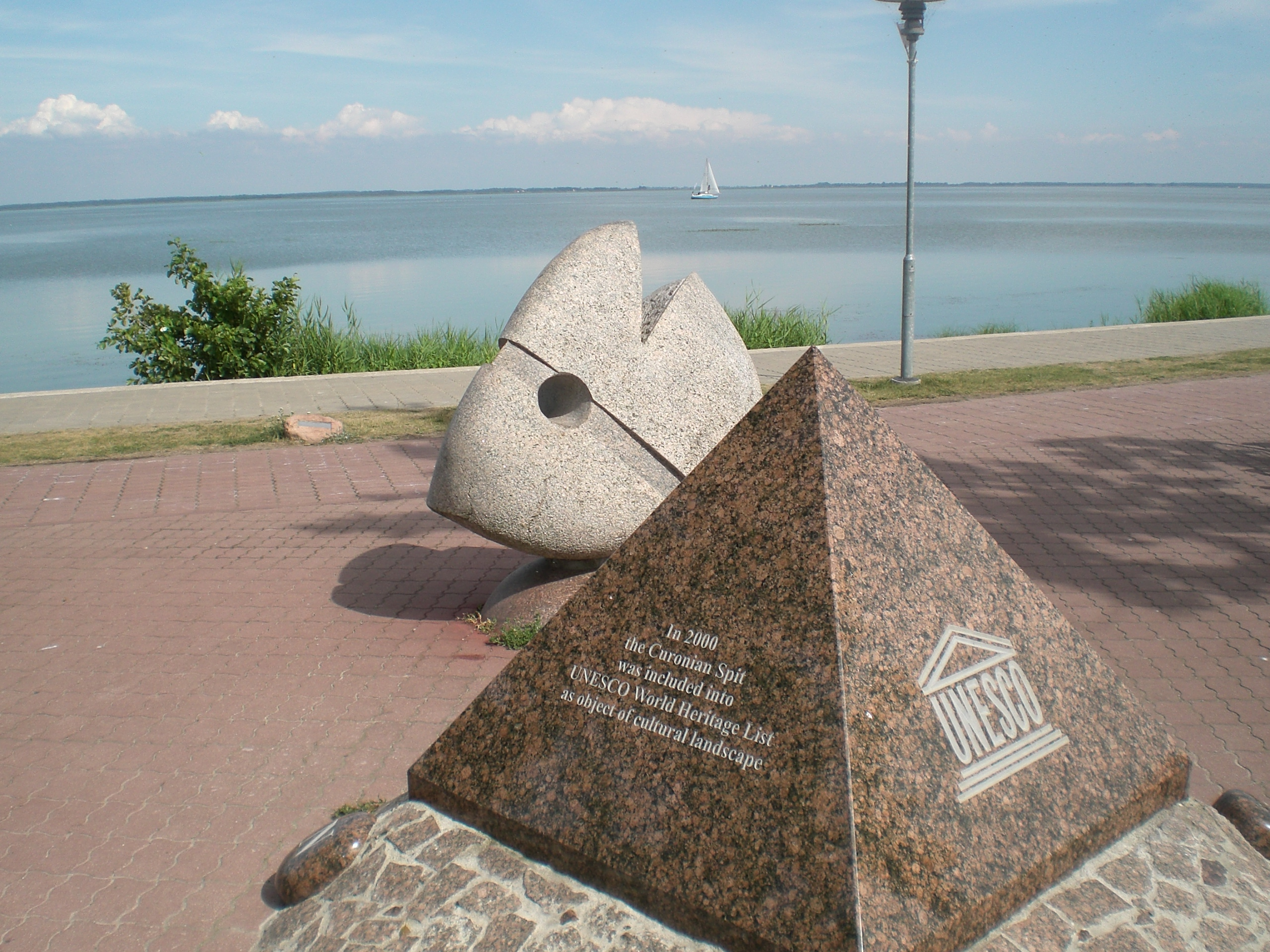 In the Sculpture park "Land and Water" in Juodkrantė, Lithuania - a pyramide reminds, that the Curonian Split in 2000 was included into the UNESCO-World Heritage List of cultural landscapes